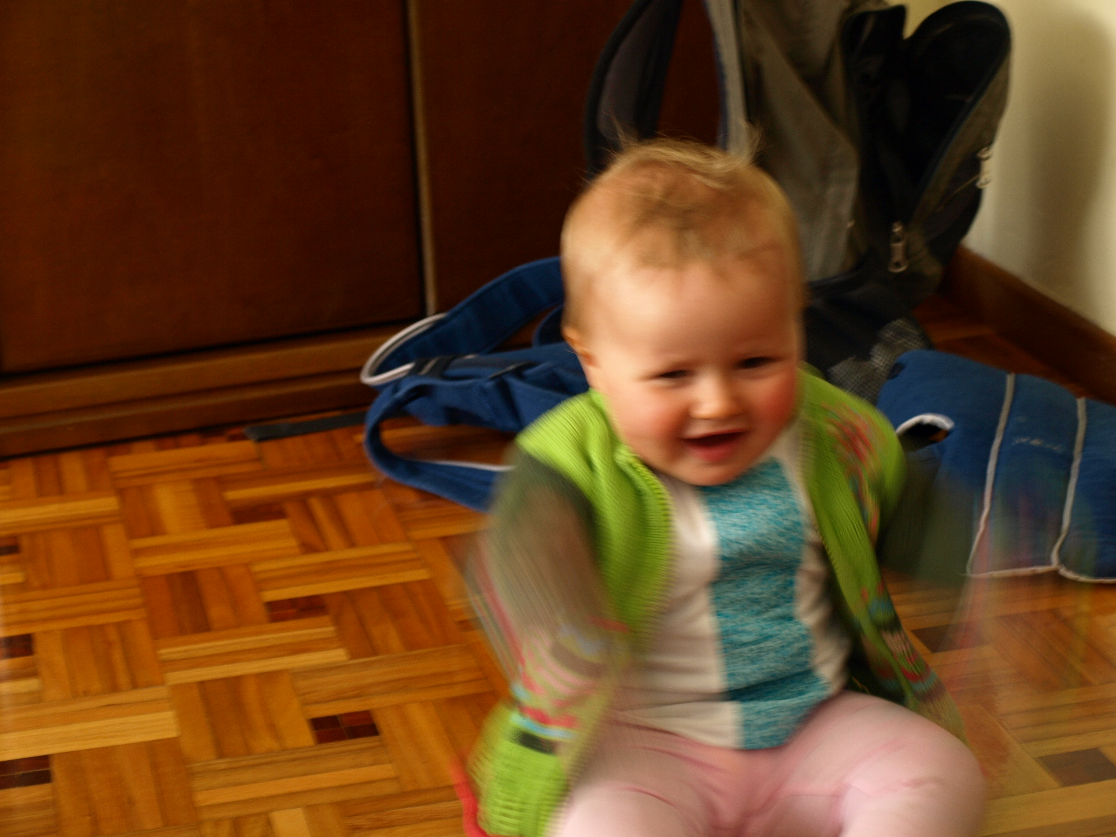 Baby girl waving arms violently. Demonstration of motion blur.